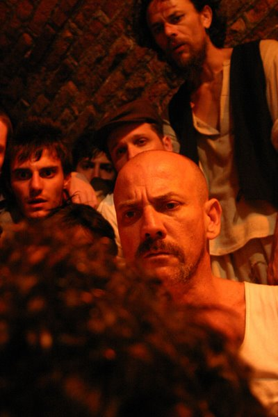 Actor portraying the character Driscoll in Eugene O'Neill's "Bound East for Cardiff".